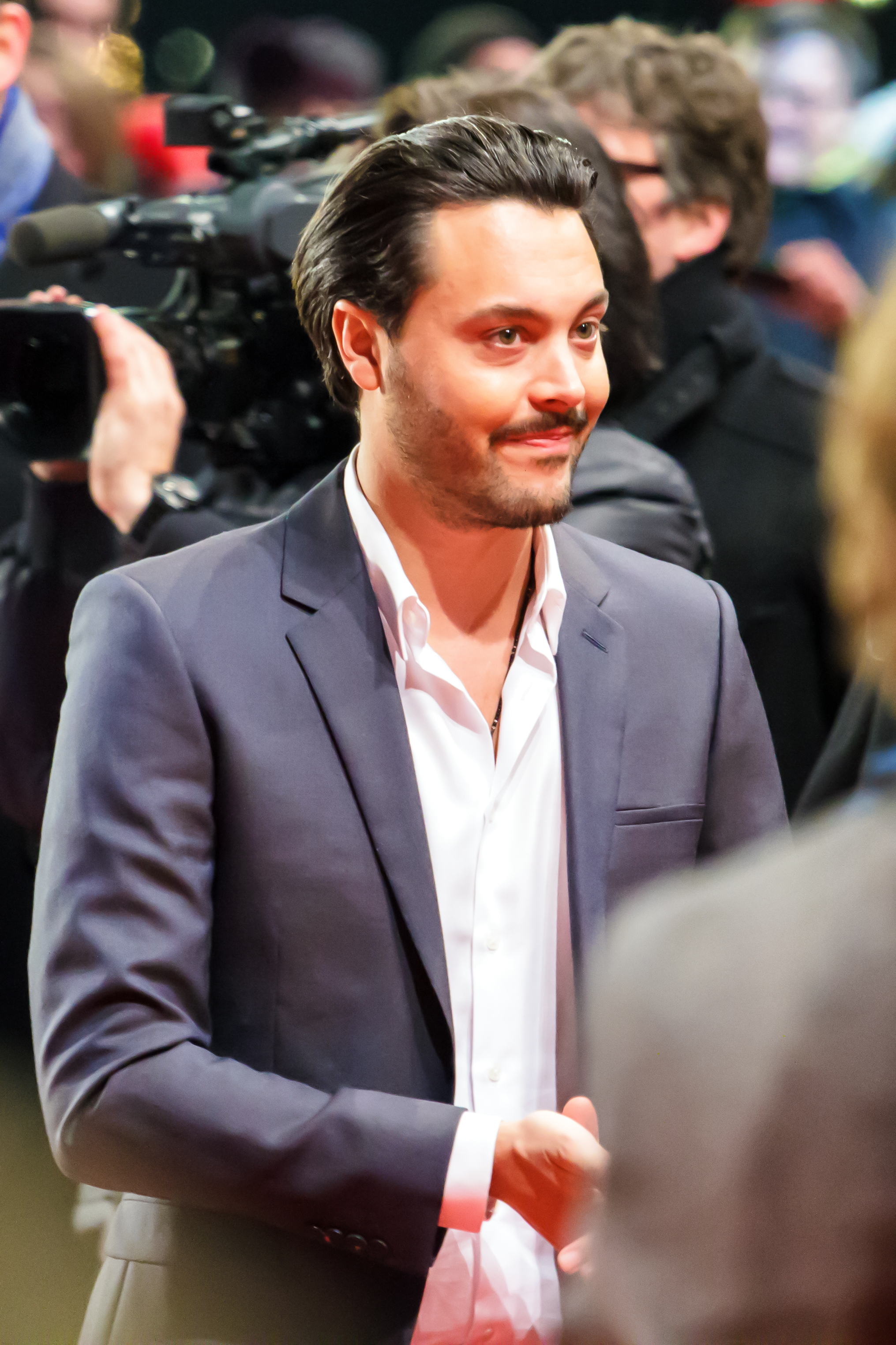 Jack Huston - Berlinale - 2013